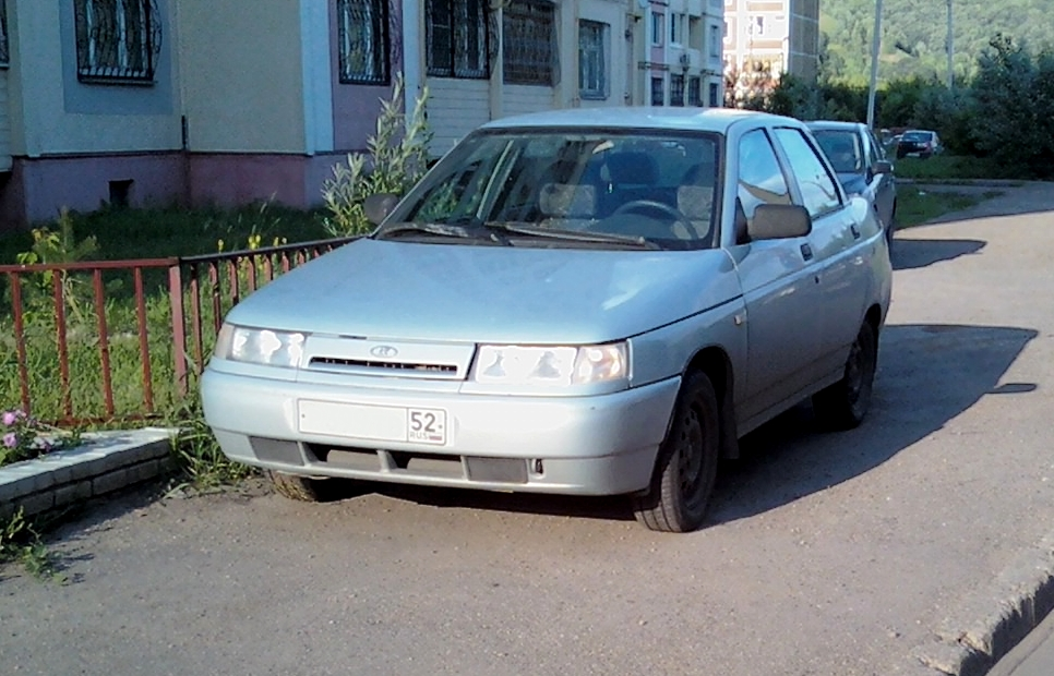 LADA 110 photographed in Nizhny Novgorod, Russia